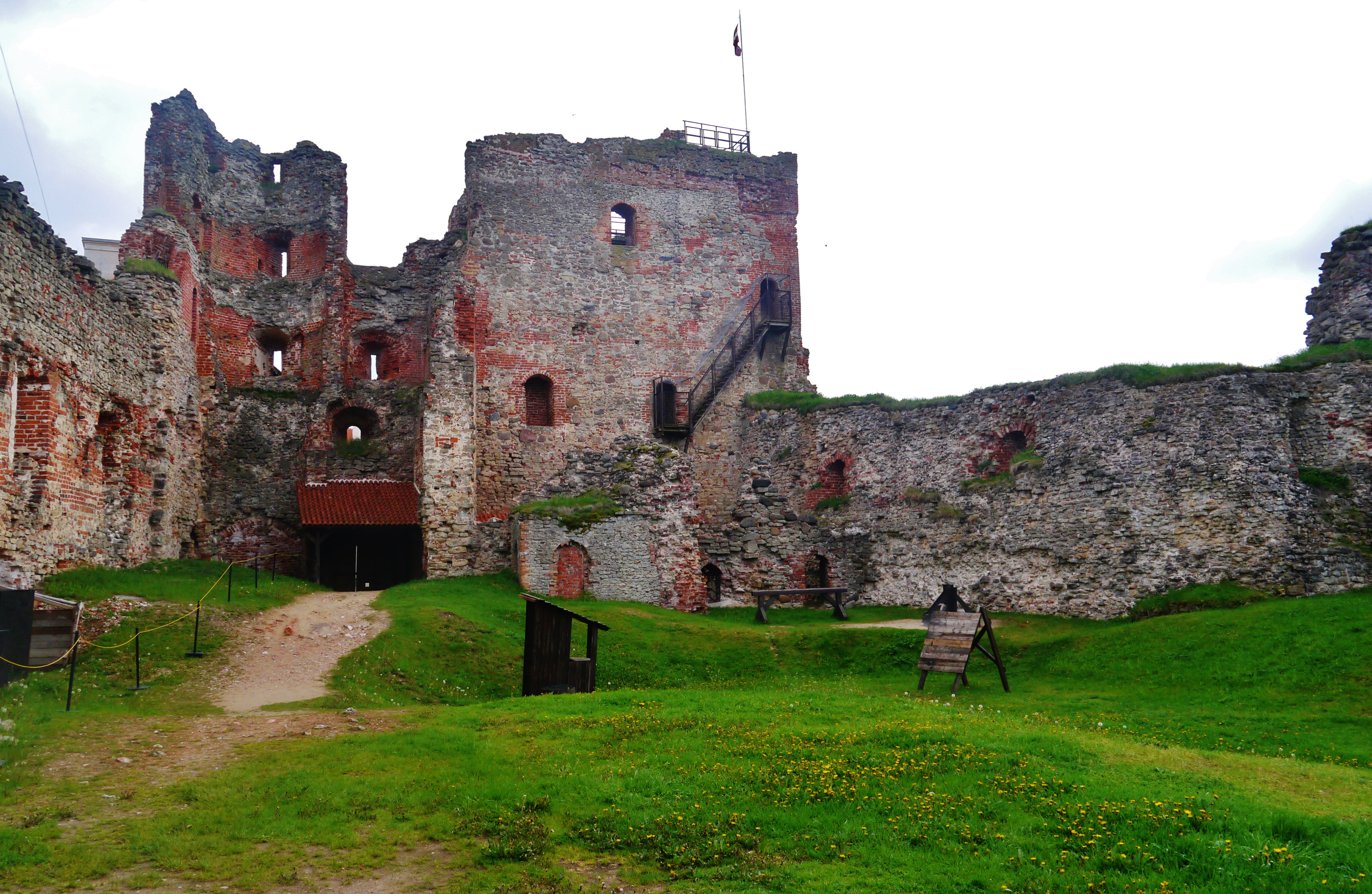 Inner Courtyard of Bauska Castle, Bauska, Latvia